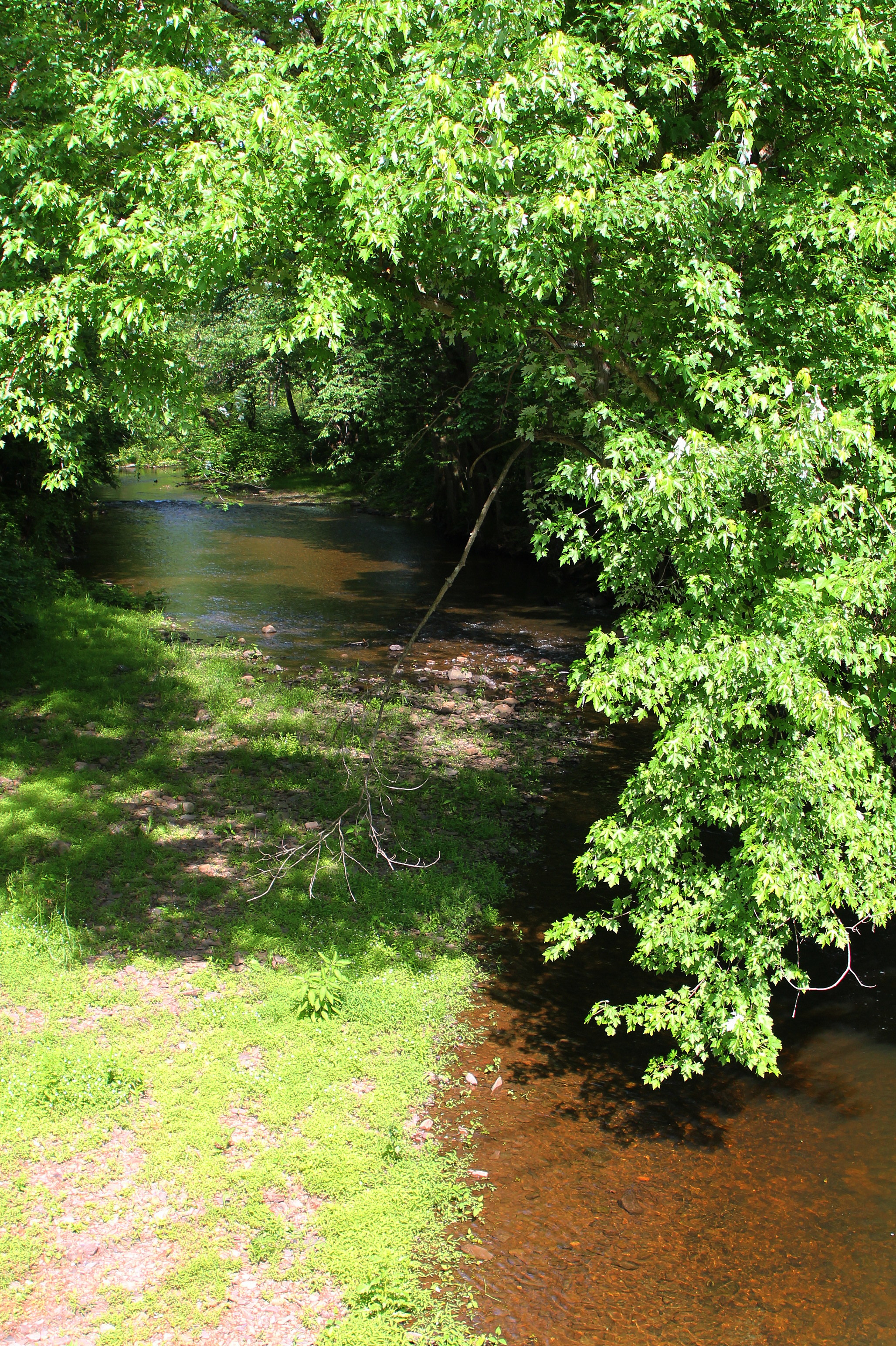 Little Wapwallopen Creek (slightly obscured by trees) from Pennsylvania Route 239, looking upstream